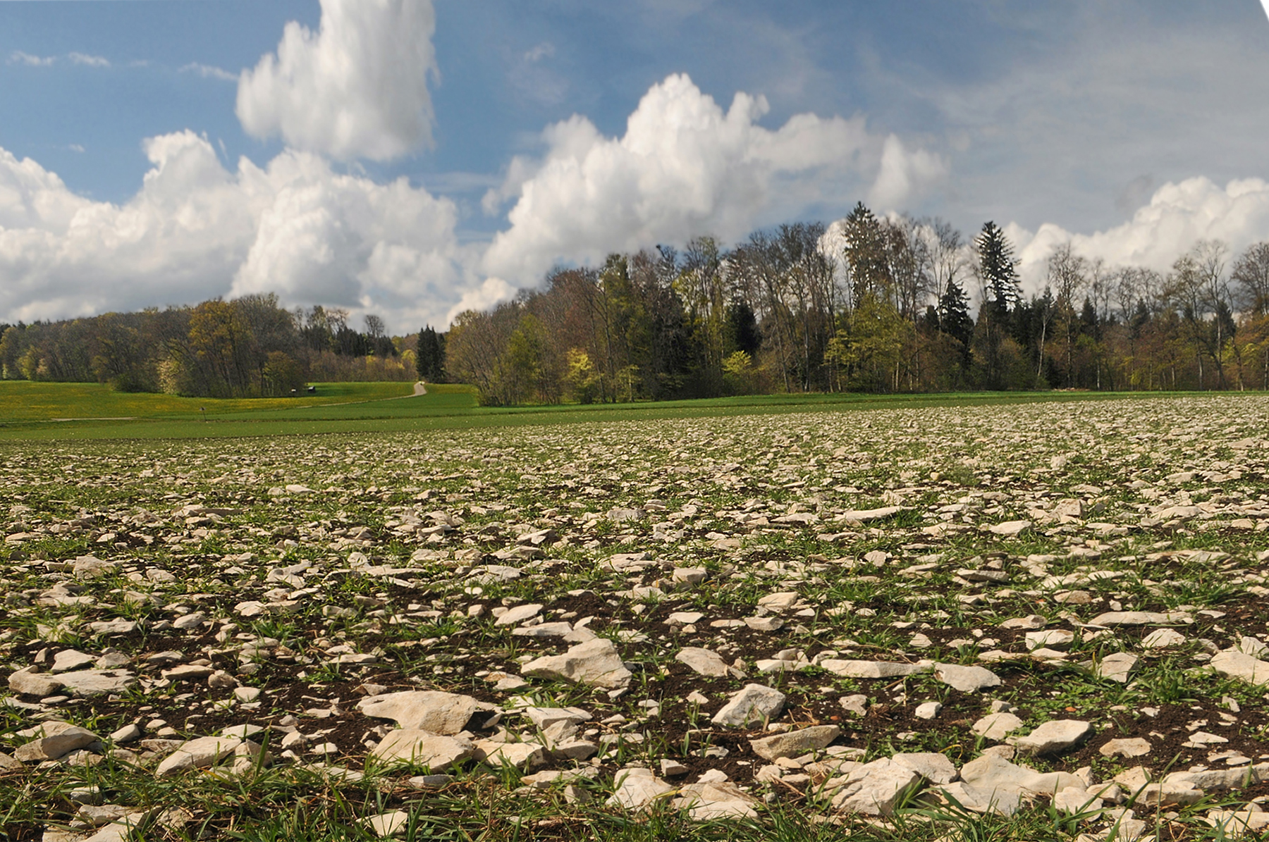 Agricultural field on the plain of the „Heufeld“, Swabian Alb. The field area is huge as it is normal after land consolidation. The plain is situated next to the northern cuesta, it is the largest closed area of the so called “Schichtflächenalb”.The soil is densely covered by limestone, most of them quite big. It is, may be, uncultivated for one year to regenerate the soil. This dense coverage certainly calls for a clearance before cultivation!